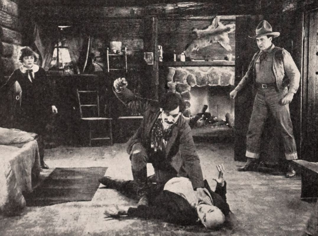 Still from the American western film Iron to Gold (1922) with Marguerite Marsh, Glen Cavender, and Dustin Farnum, on page 72 of the March 18, 1922 Exhibitors Herald.